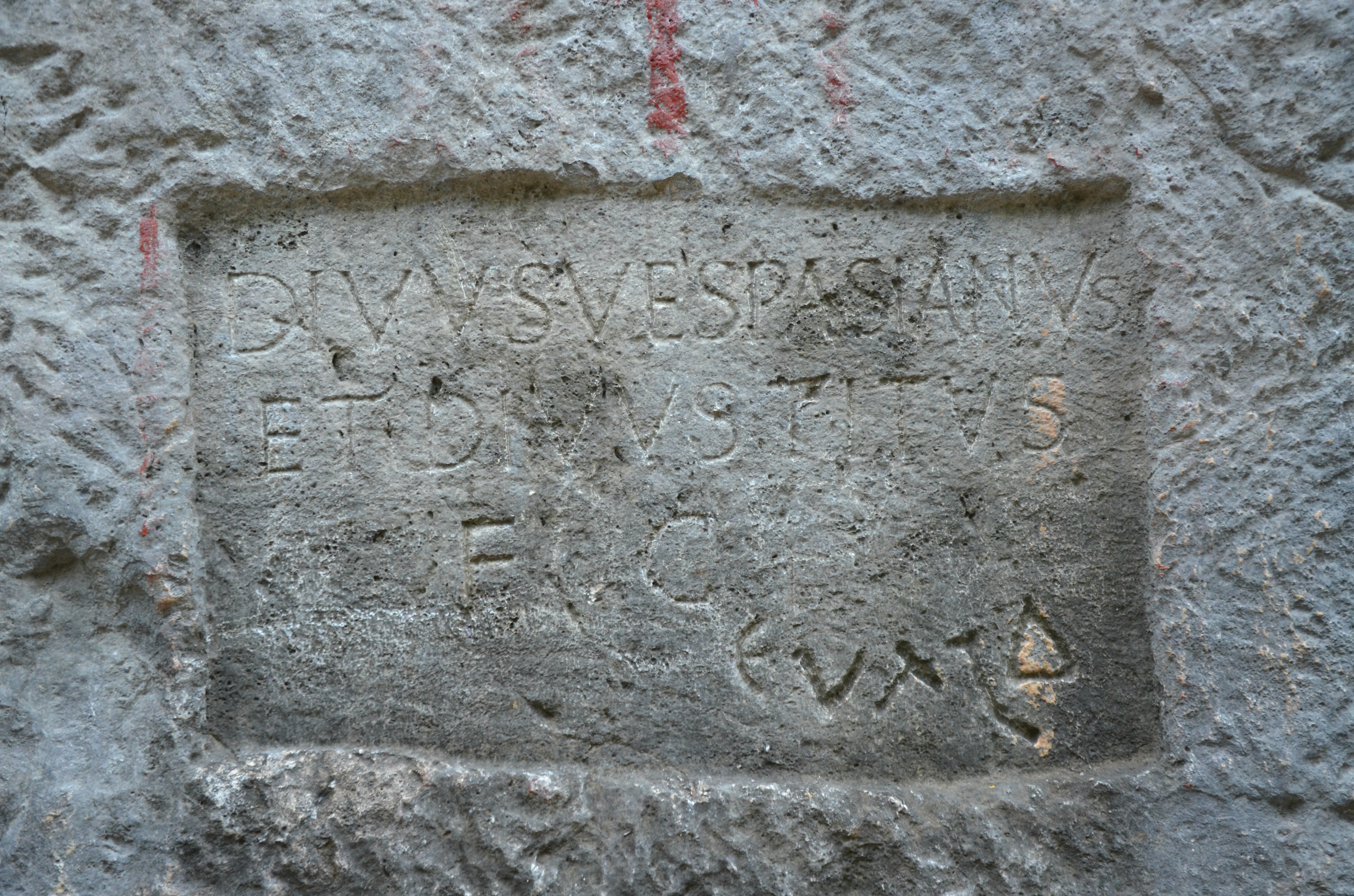 Rock-carved inscription at the entrance of the first tunnel section bears the names Vespasianus and Titus, Seleucia Pieria, Turkey